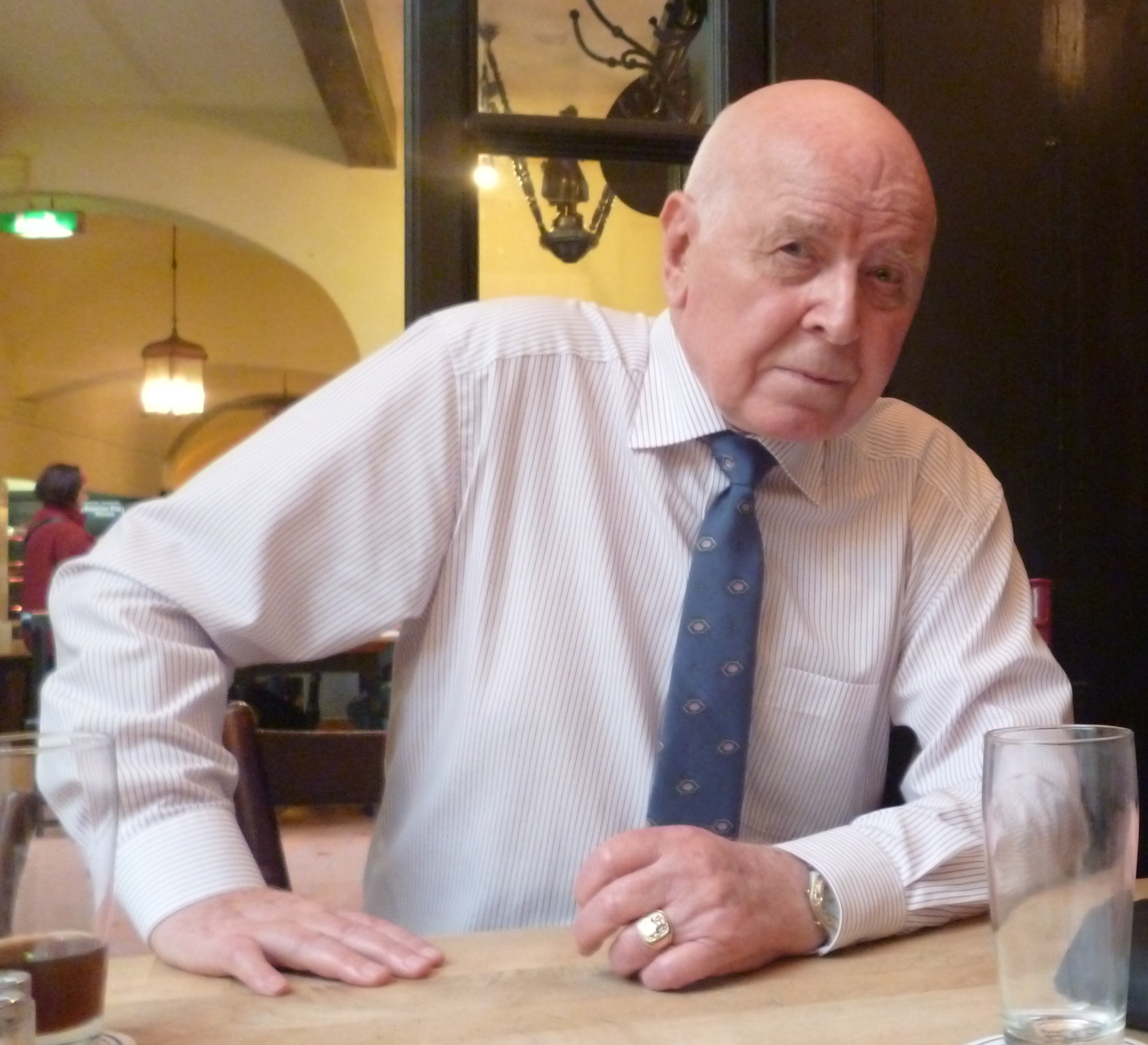 Rolf Steiner (born 1933), former Foreign Legionnaire